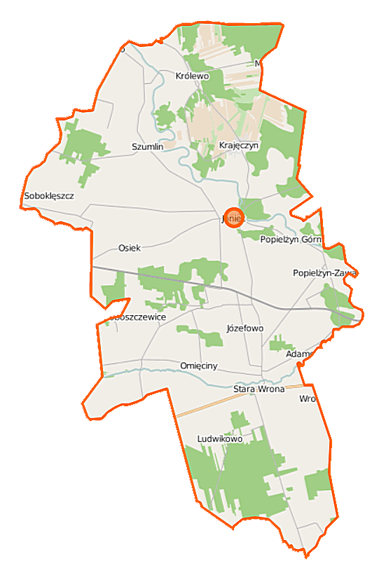 Map of Gmina Joniec, Poland This map of Joniec (gmina) was created from OpenStreetMap project data, collected by the community. This map may be incomplete, and may contain errors. Don't rely solely on it for navigation. Border coordinates52.652620.4874←↕→20.635852.5162